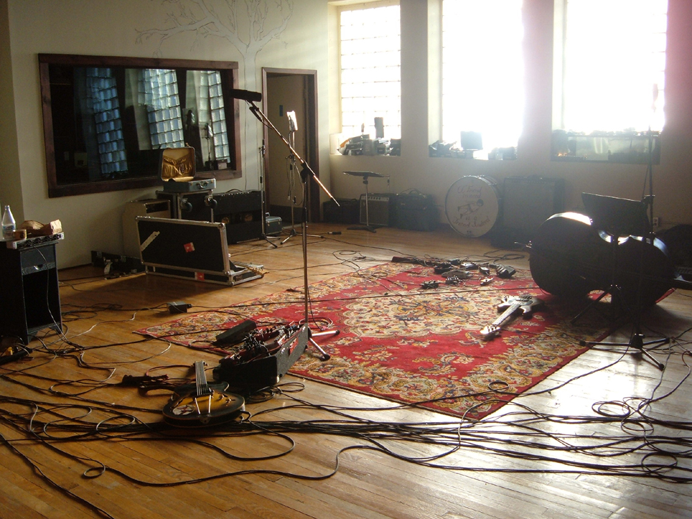 A photograph of the tracking room in the Hotel2Tango, a recording studio based in Montreal, Quebec, Canada. The image was taken by a FinePix A340 at 7:10 in the morning on June 14, 2007. The author of the image, Howard Bilerman, allows use of it without any restrictions.